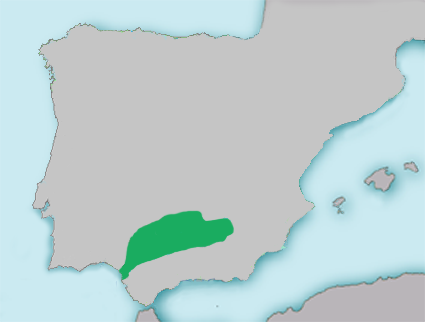 Distribution map of Squalius palaciosi in Iberian Peninsula.